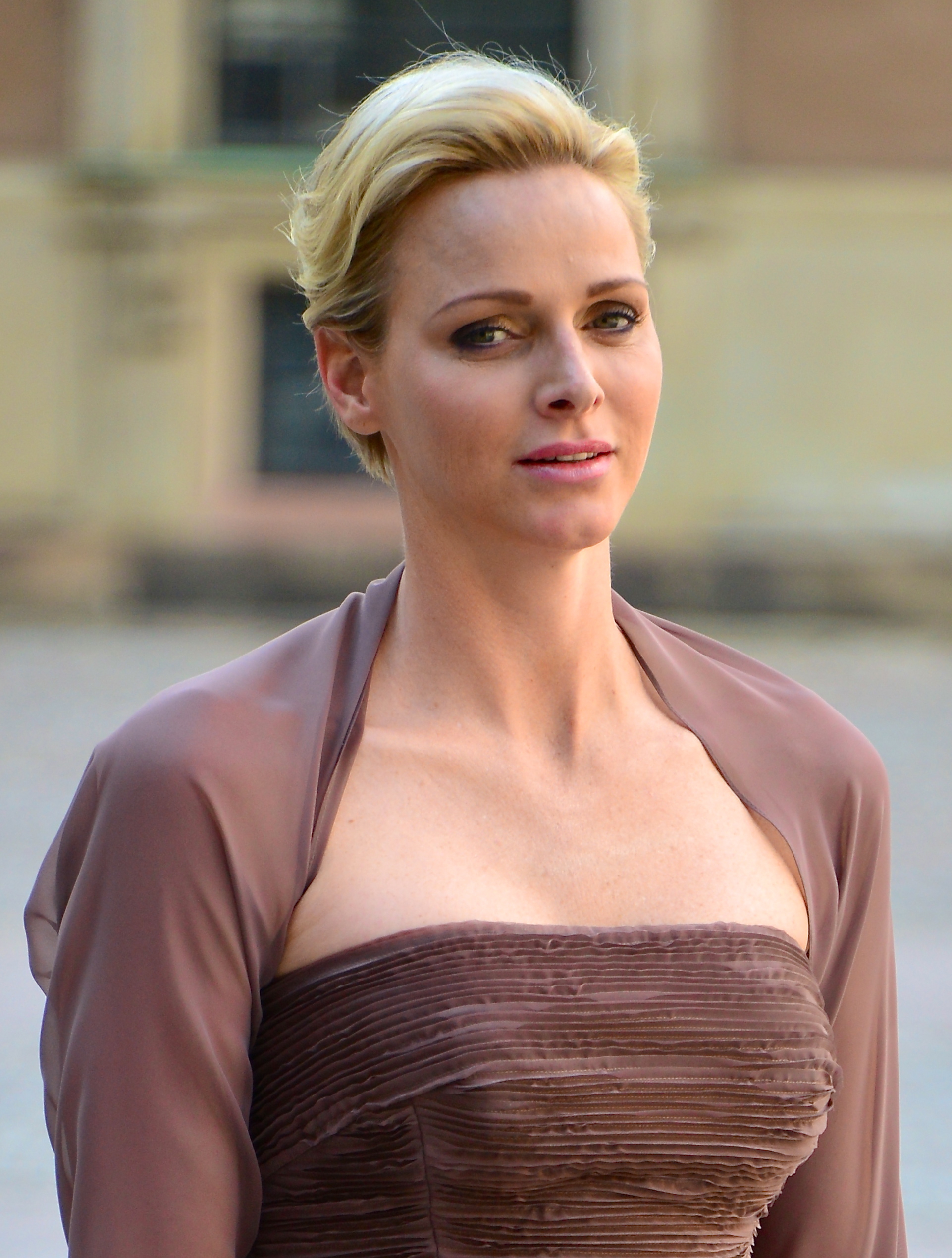 Charlene, Princess of Monaco on the way to the castle church at the Royal Palace in Stockholm before the wedding between Princess Madeleine and Christopher O'Neill June 8, 2013.